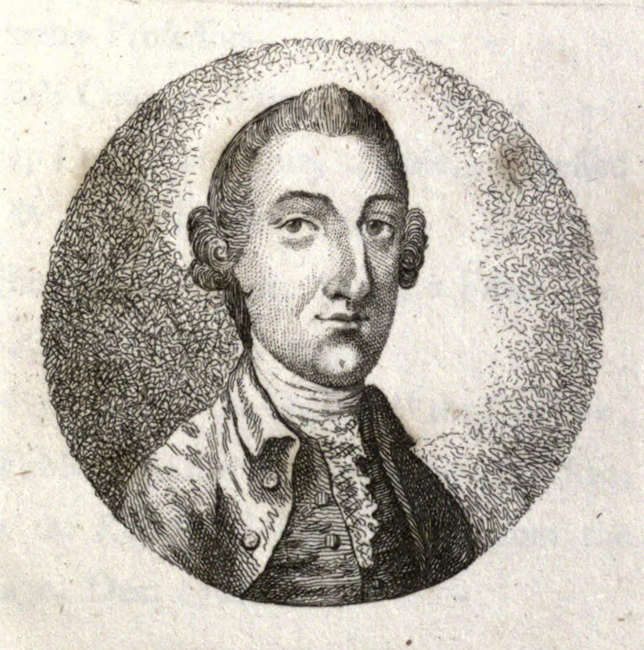 Engraved portrait of Robert Lloyd (1733–1764), English poet and satirist